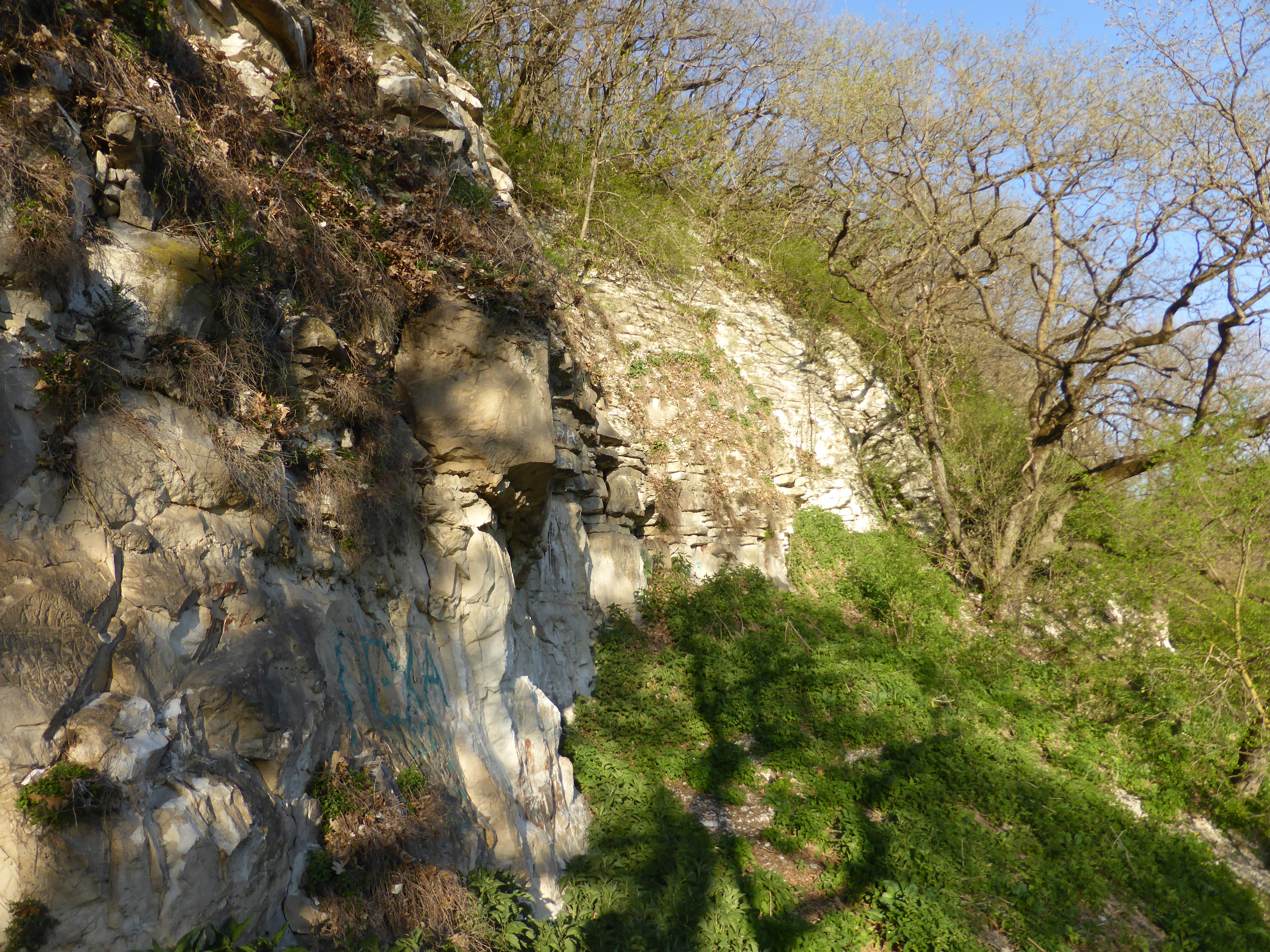 cave Alimkina